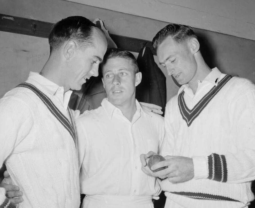 Australian cricketers Ian Craig, J W Martin and B Booth within the changing rooms of the